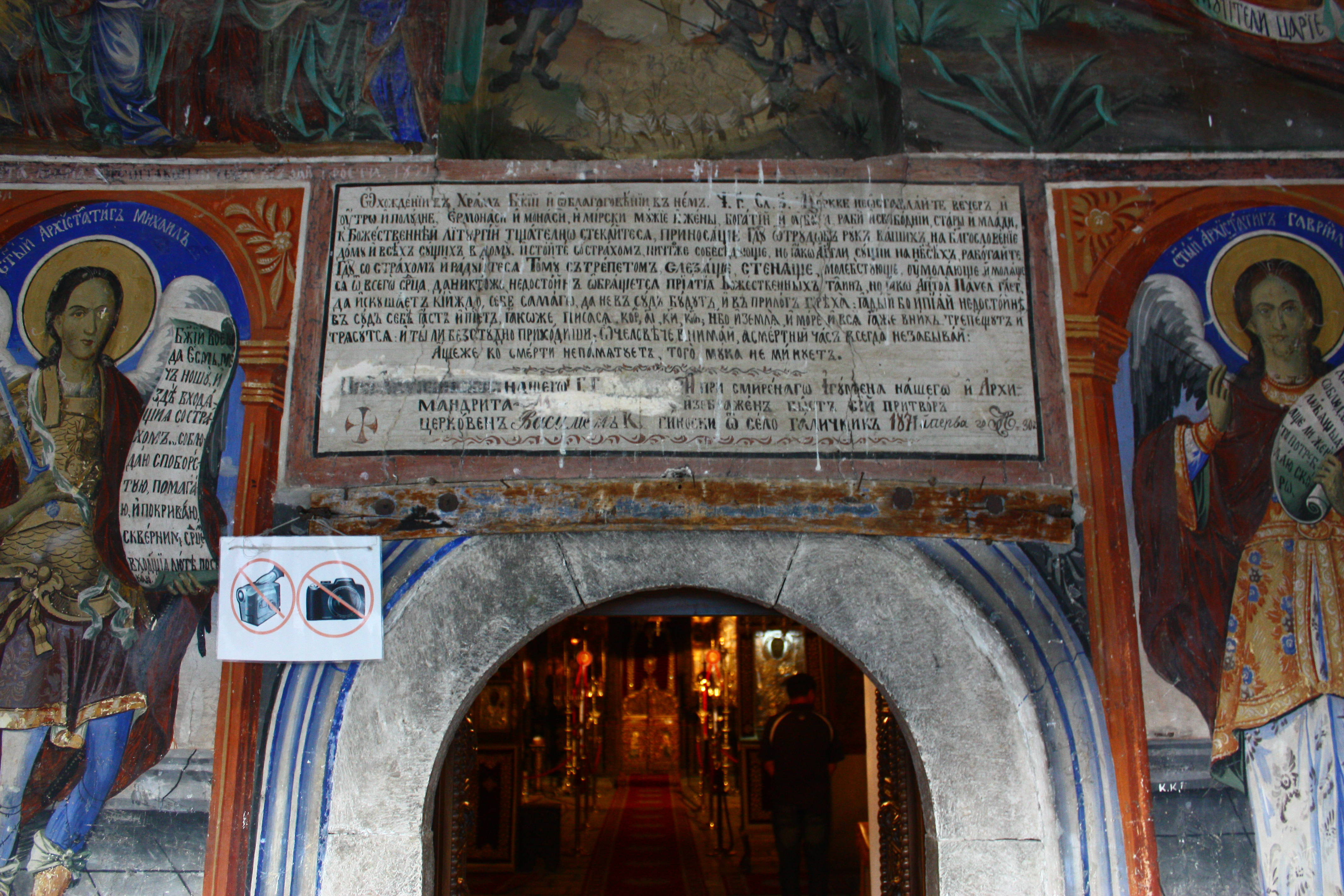 Bigorski Monastery, Macedonia